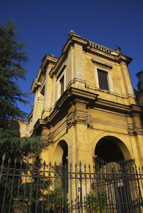 the Church of Santa Bibiana, Rome, Italy. Facade.